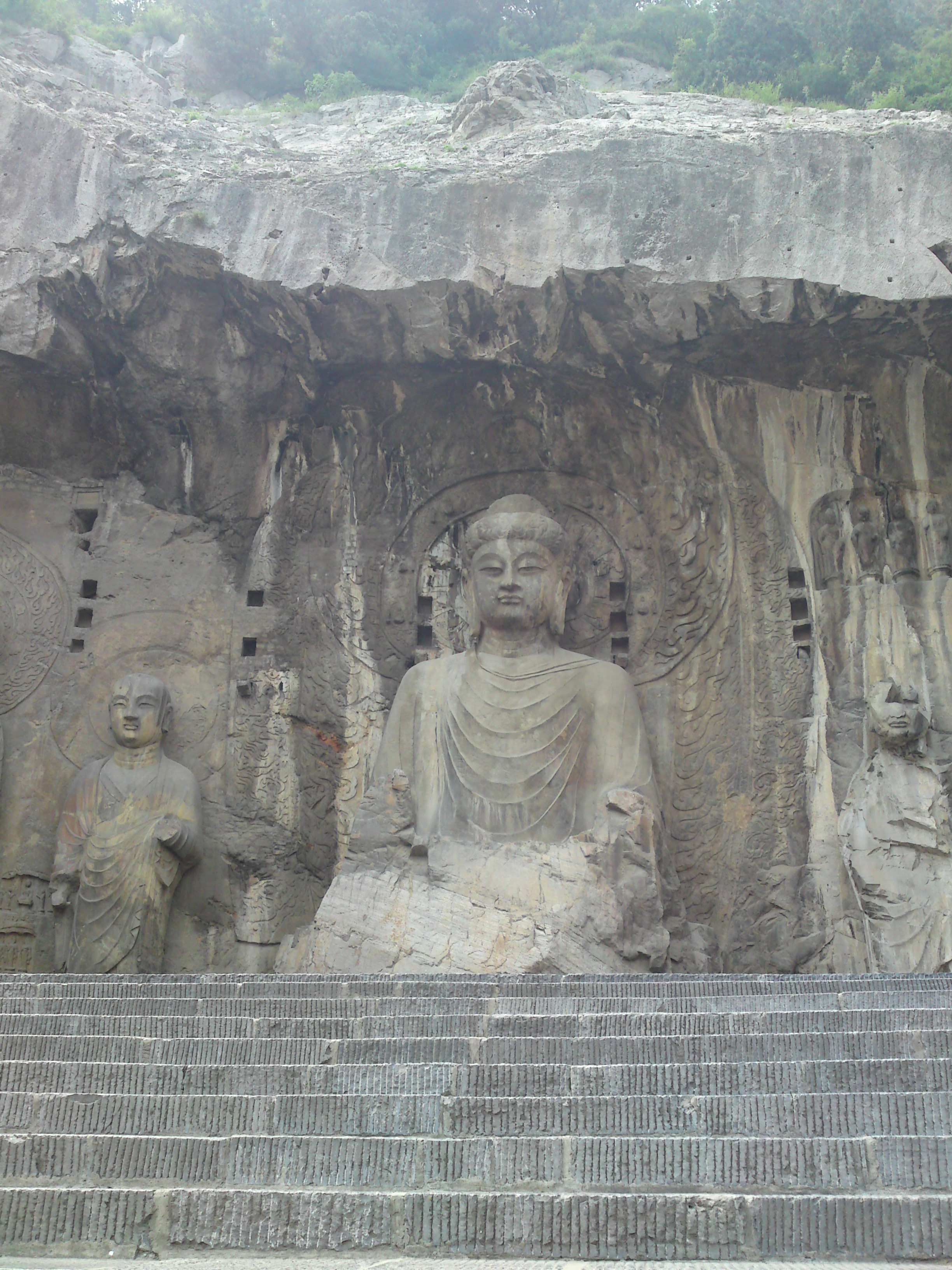 The biggest statue on the World Heritage Site of Longmen.